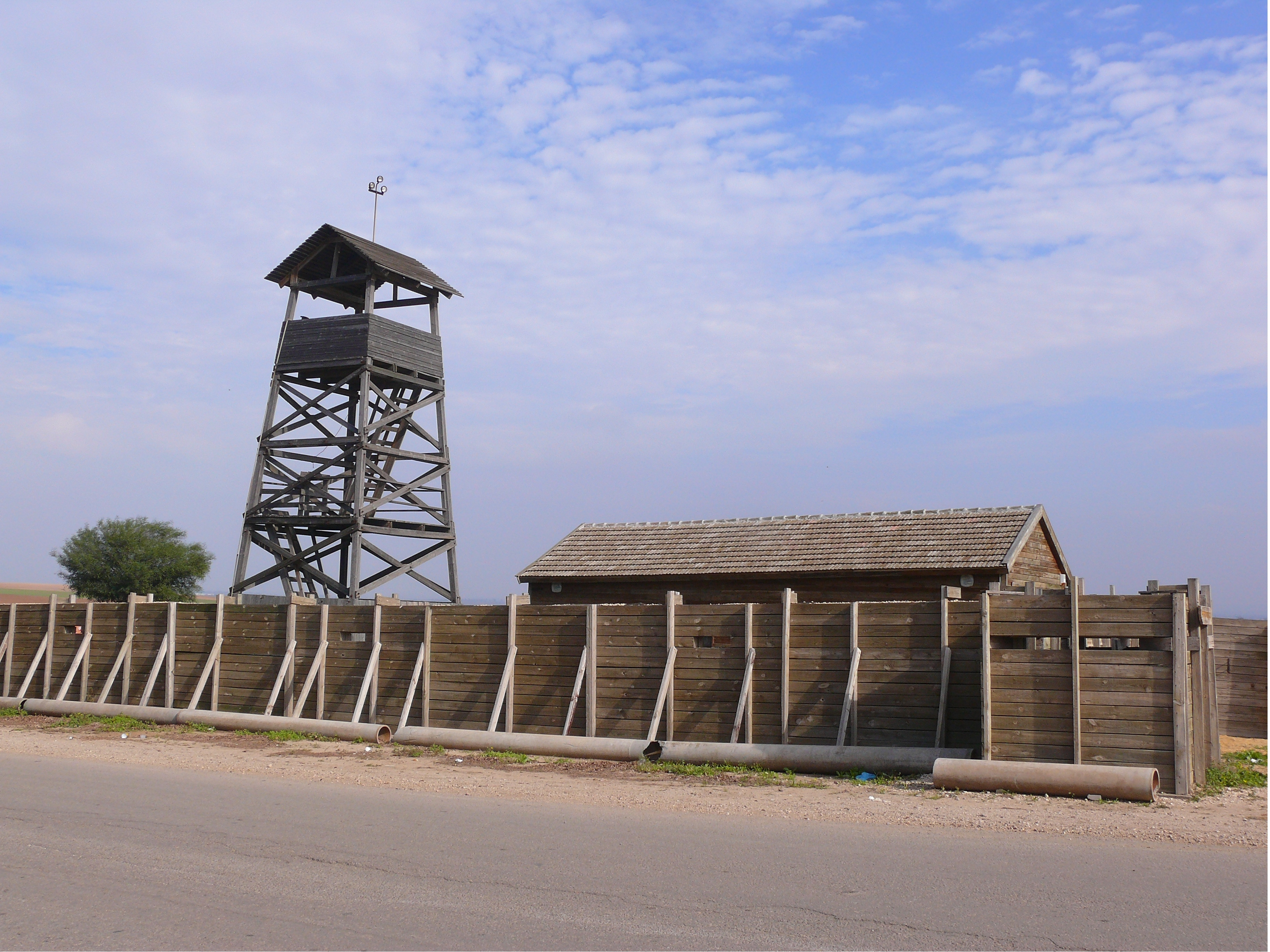 Negba Homa ve-Migdal (Tower and Stockade), Israel